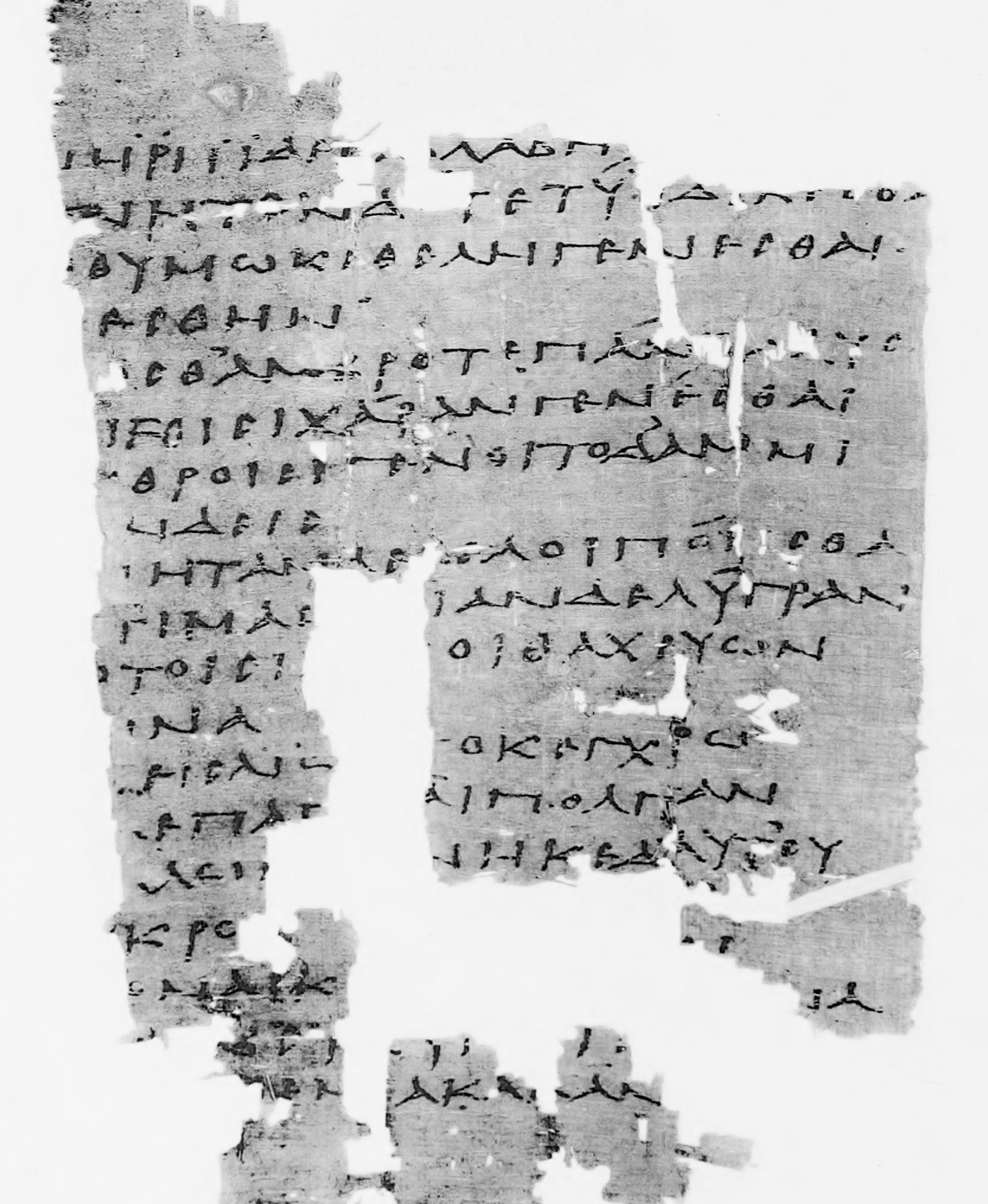 P.Oxy. I 7: Sappho